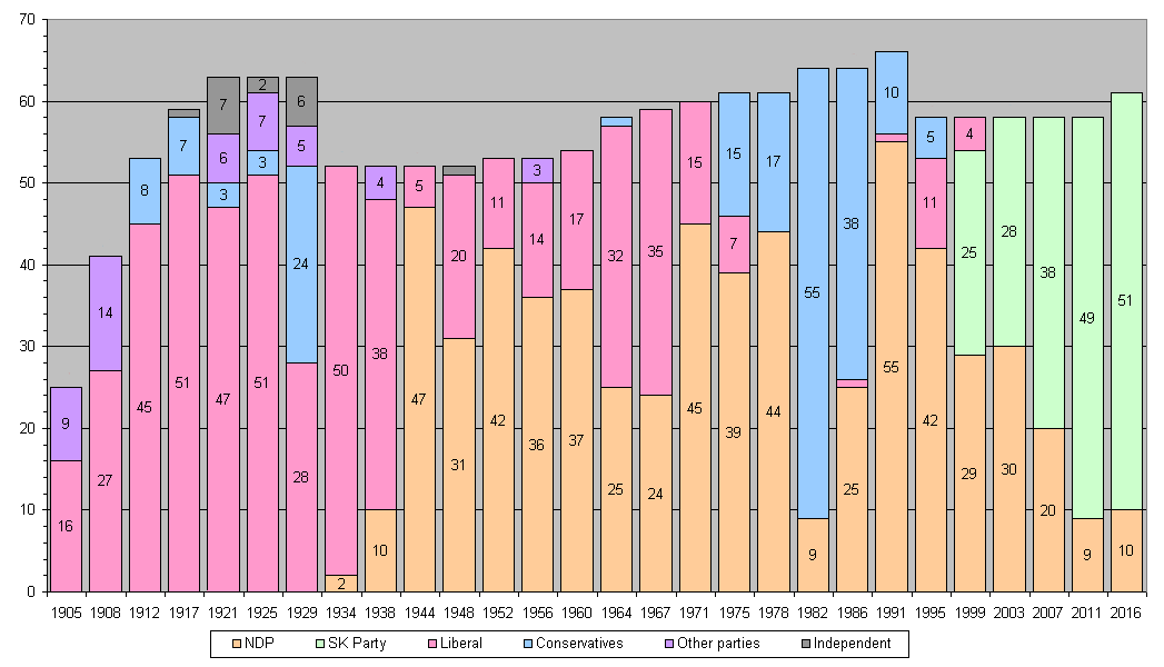 Image created by me from a graph produced in MS Excel, using data from List of Saskatchewan general elections. Tompw 14:41, 19 November 2006 (UTC) Numbers on graph indicates number of seats won; no number indicates one seat won. Results for the NDP include results for the CCF party from 1938 to 1964, and Farmer-Labour party for 1934 and earlier Results for the Conservative party include all results for the Progressive Conservatives, and the Provincial Rights party for 1908 and earlier The "Independent Liberal" candidate elected in 1925 and the "Independent Pro-Government" candidate elected in 1921 have been included in the Liberal party's results Results included as "Other": 1905, 1908: Provincial Rights 1921: Progressive 1925: Progressive (6), Labour-Liberal (1) 1929: Progressive 1938: Unity Party (2), Social Credit (2) 1956: Social Credit